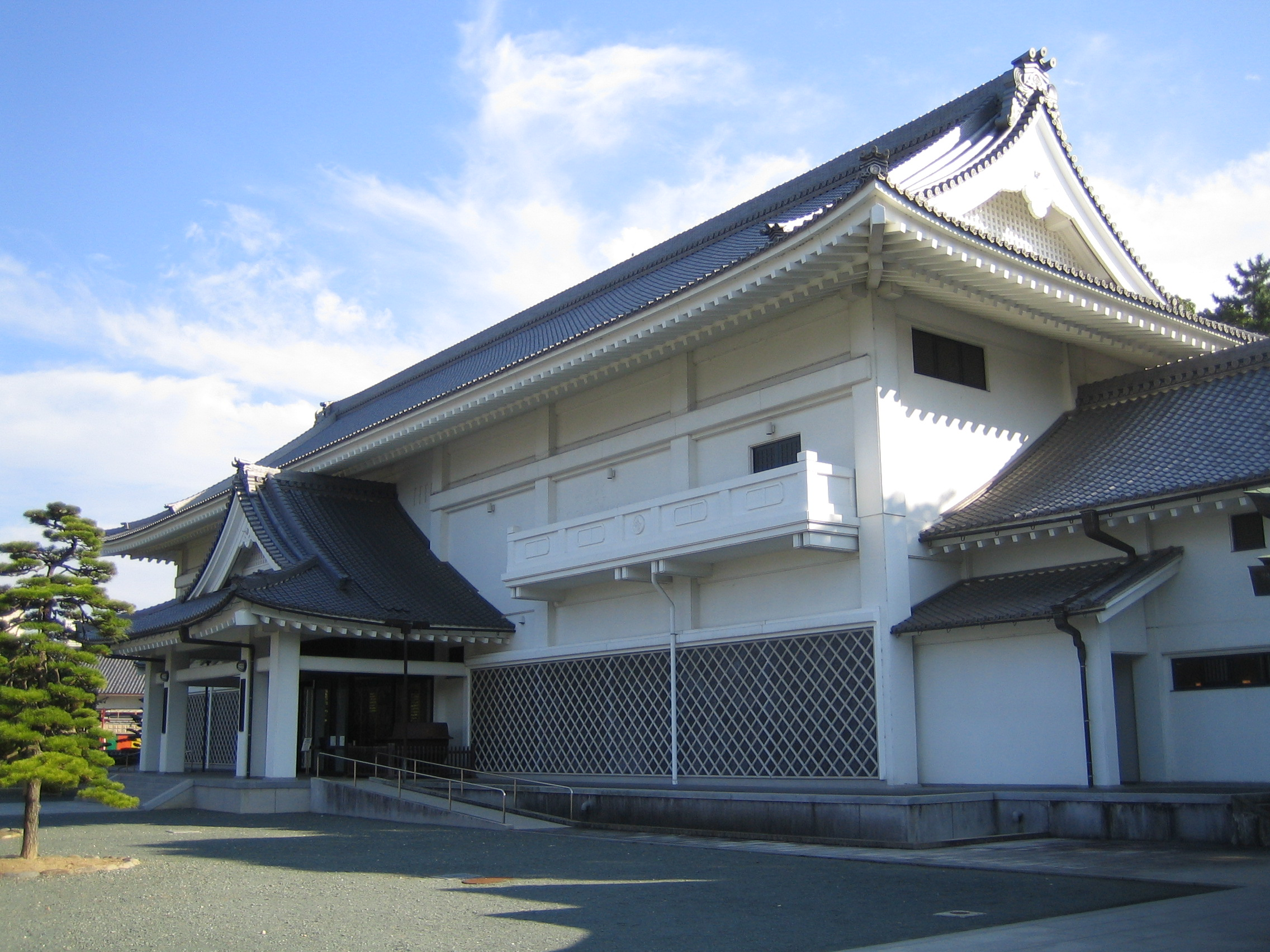 Toyokawa Inari Jihoukan (豊川稲荷寺宝館), in Toyokawa, Aichi, Japan